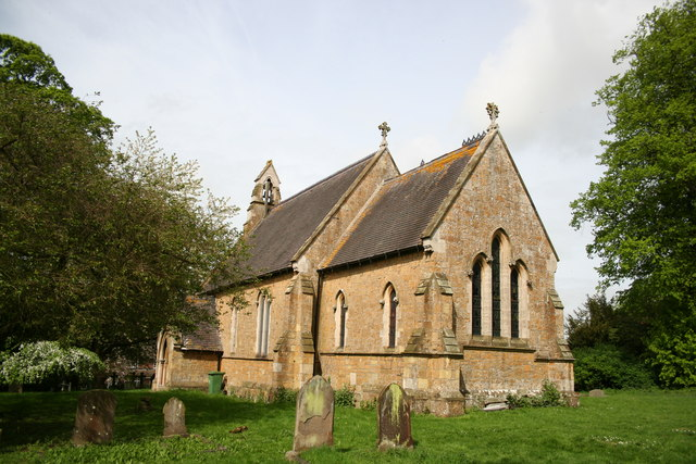 St.Martin's church, East Ravendale, Lincs. By James Fowler in 1857 in the Early English style